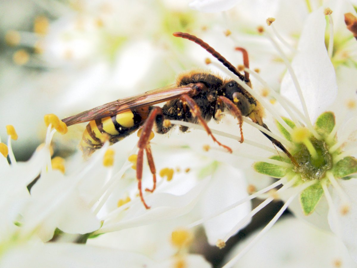 Name: Nomada sp. Family: Apidae. Feeding on Prunus spinosa. Location. Münster, NRW, Germany